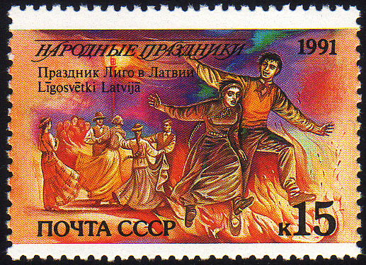 Postage stamp issued by the Soviet Union 1991 depicting scene from the Latvian holiday Līgo.